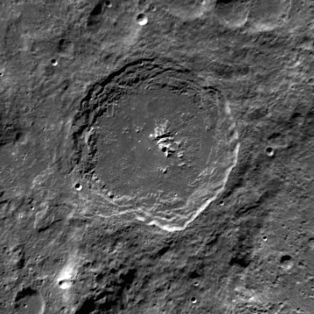 Hausen lunar crater - LROC image . Bailly at right border of image; the massif at left bottom corresponds to Doerfel gamma .